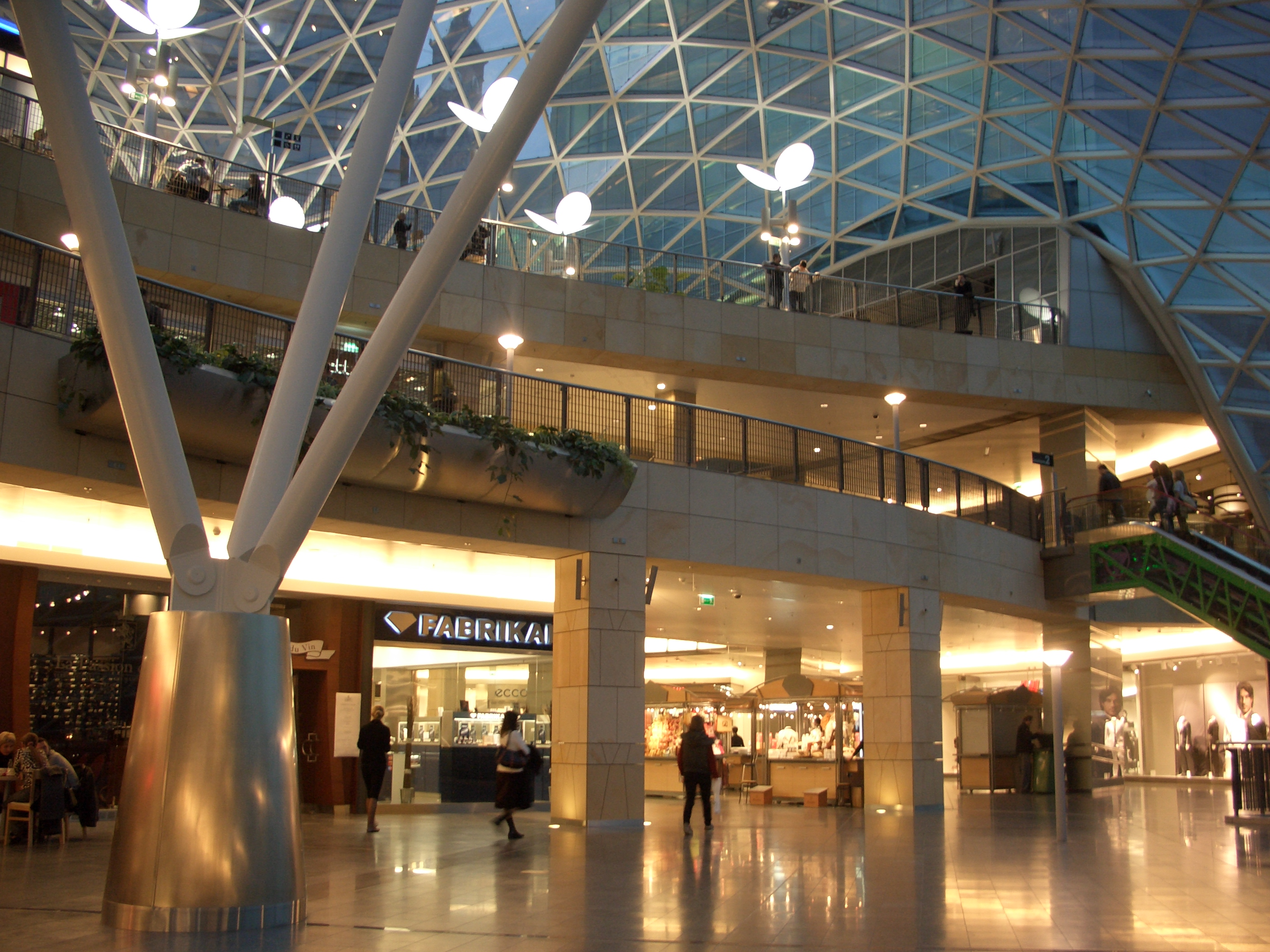 Part of the Złote Tarasy(Golden Terraces) shopping center, located in Warsaw, Poland.